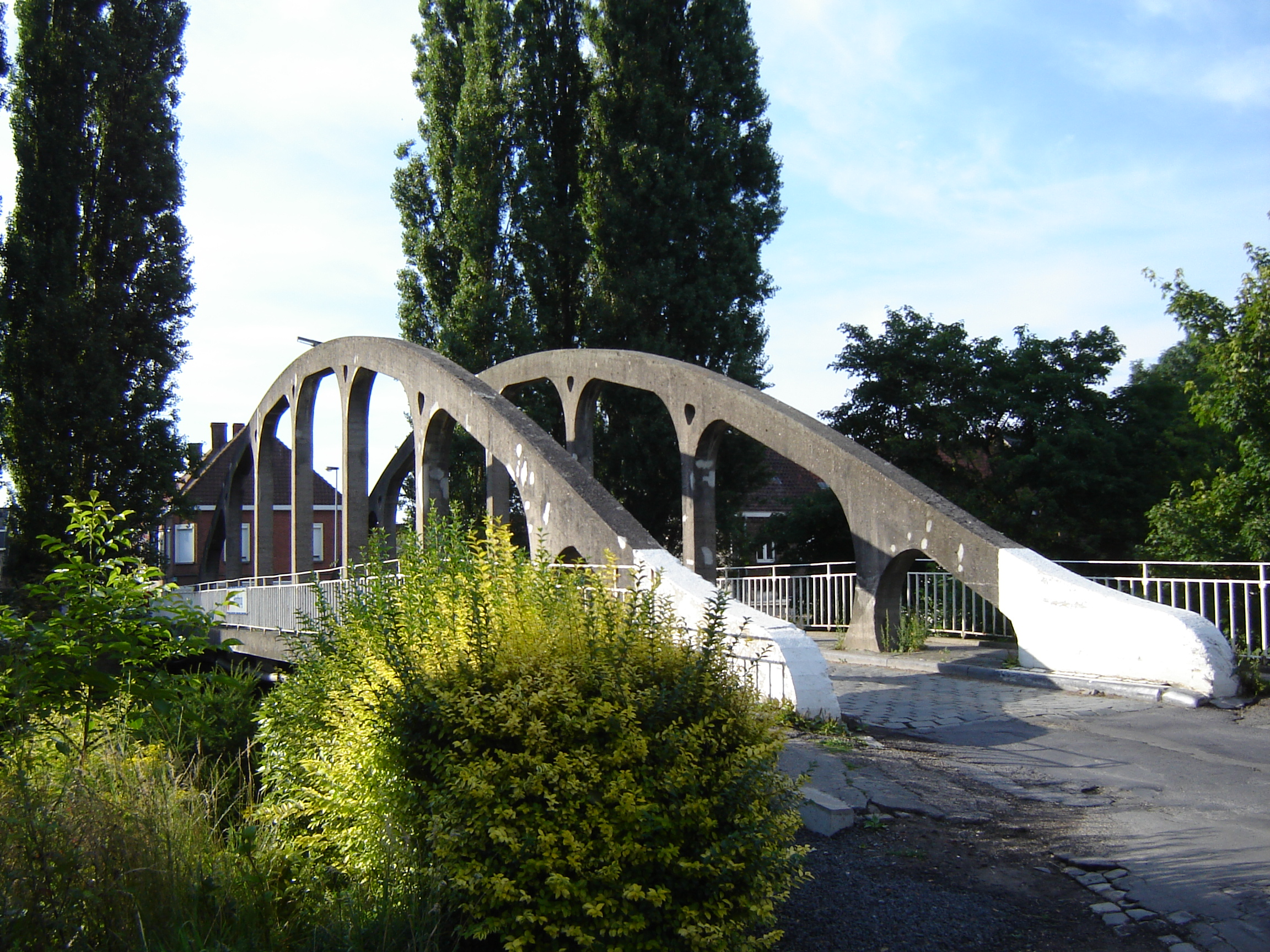 The Pontbrug bridge over an arm of the river Leie in Drongen. Drongen, Gent, East Flanders, Belgium